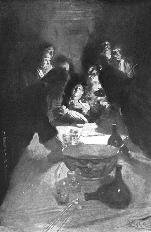 Engraving depicting colonial New York Governor Henry Sloughter signing Jacob Leisler's death warrant.